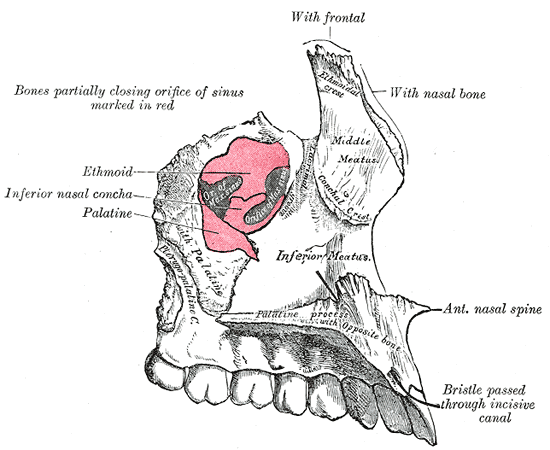 Left superior maxillary bone, inner surface.